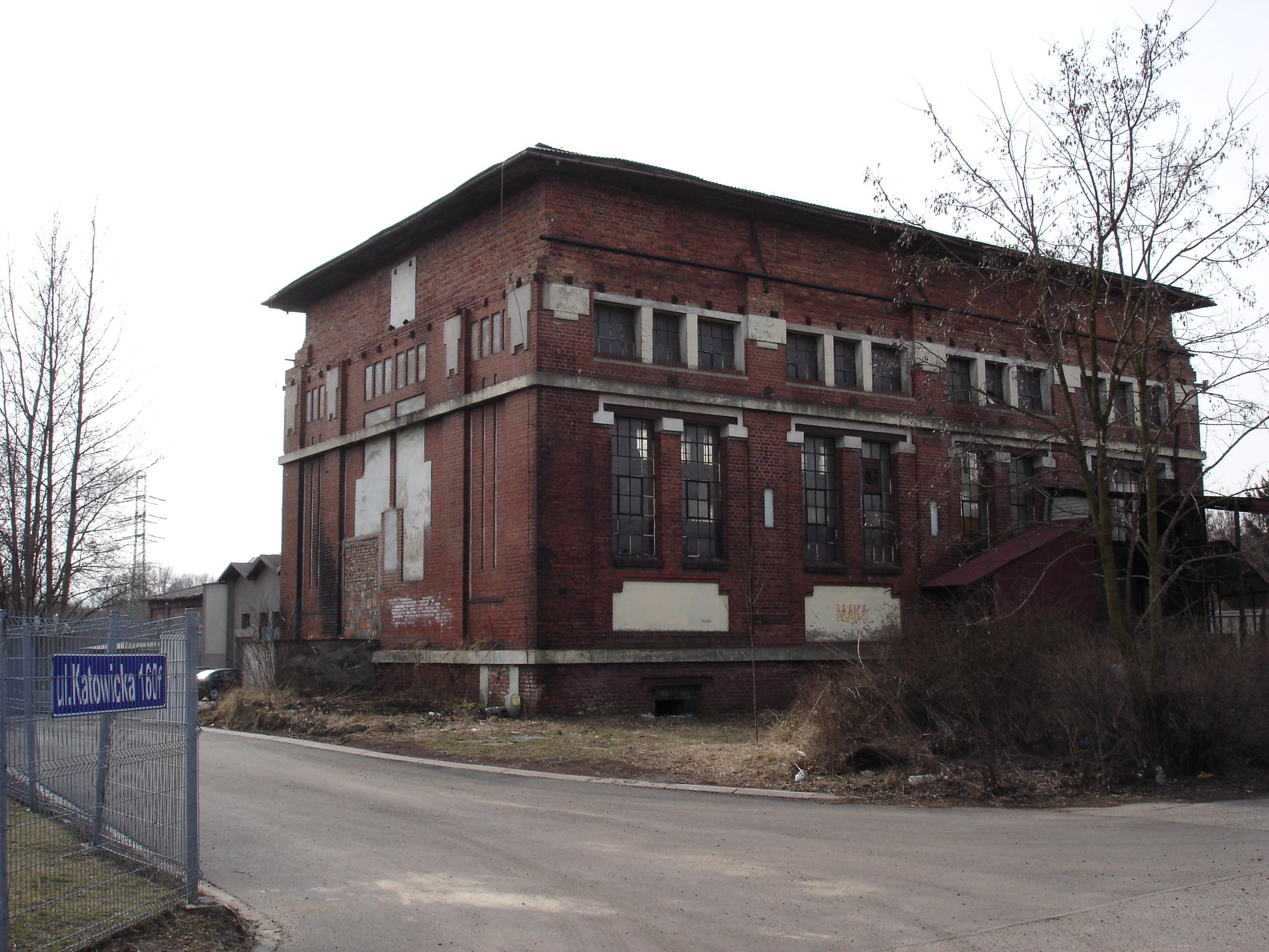 Winding machine house of Wyzwolenie II shaft (Nordfeldschacht II), coal mine Wyzwolenie (Königsgrube Nordfeld) in Chorzów, Poland.